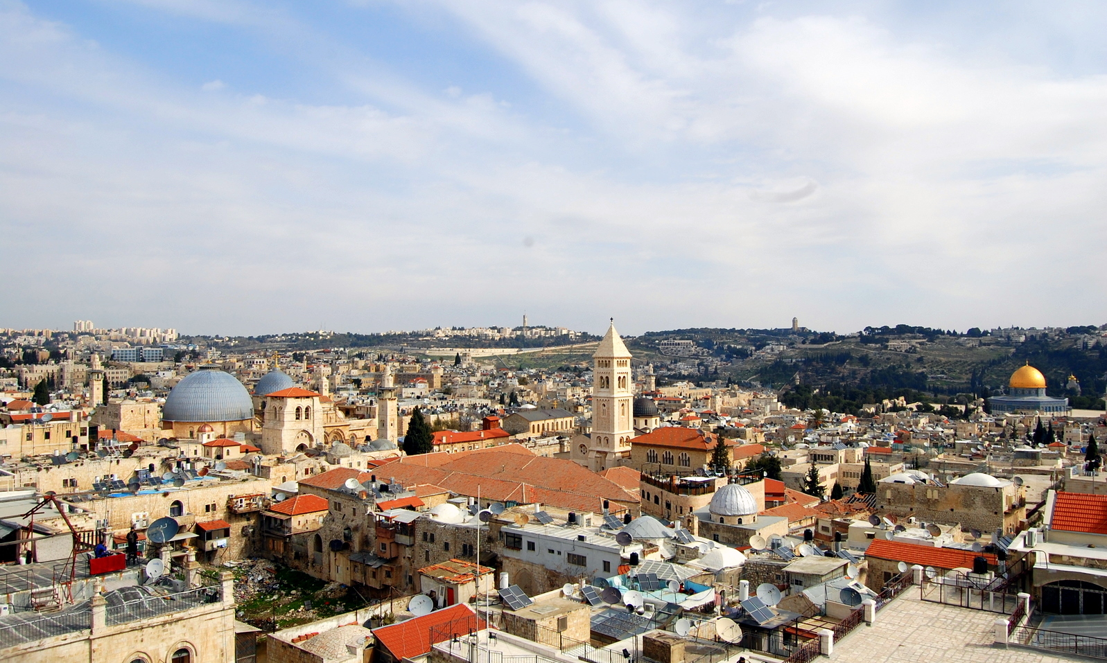 Old Jerusalem, view from Tower of David